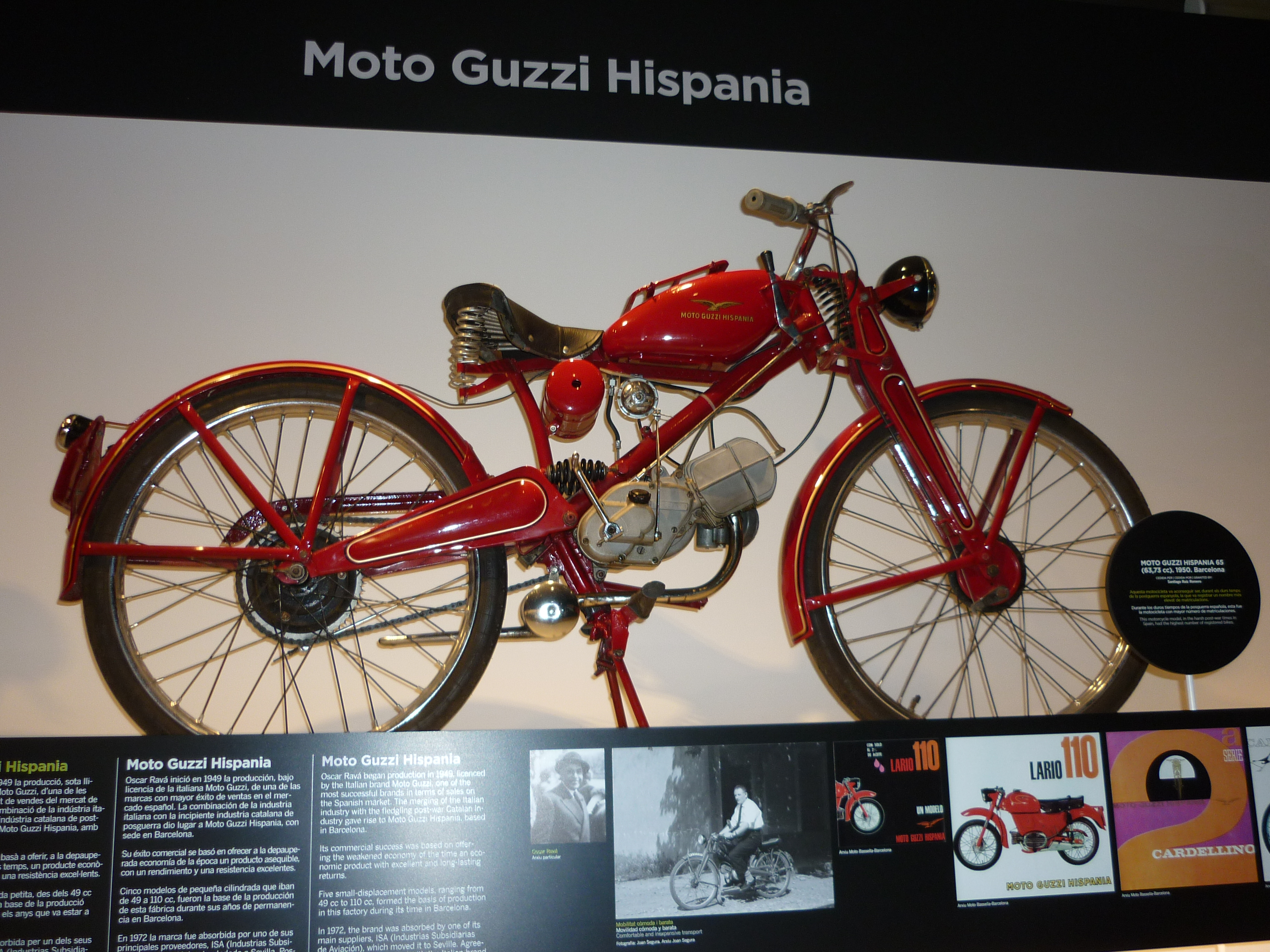 Moto Guzzi Hispania 65 (63.73 cc), aka "Guzzino" in Italy, 1950